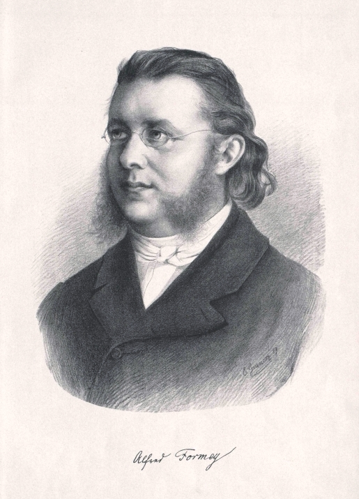 Alfred Formey (1844–1901)